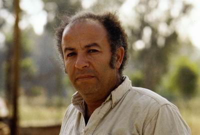 Photograph